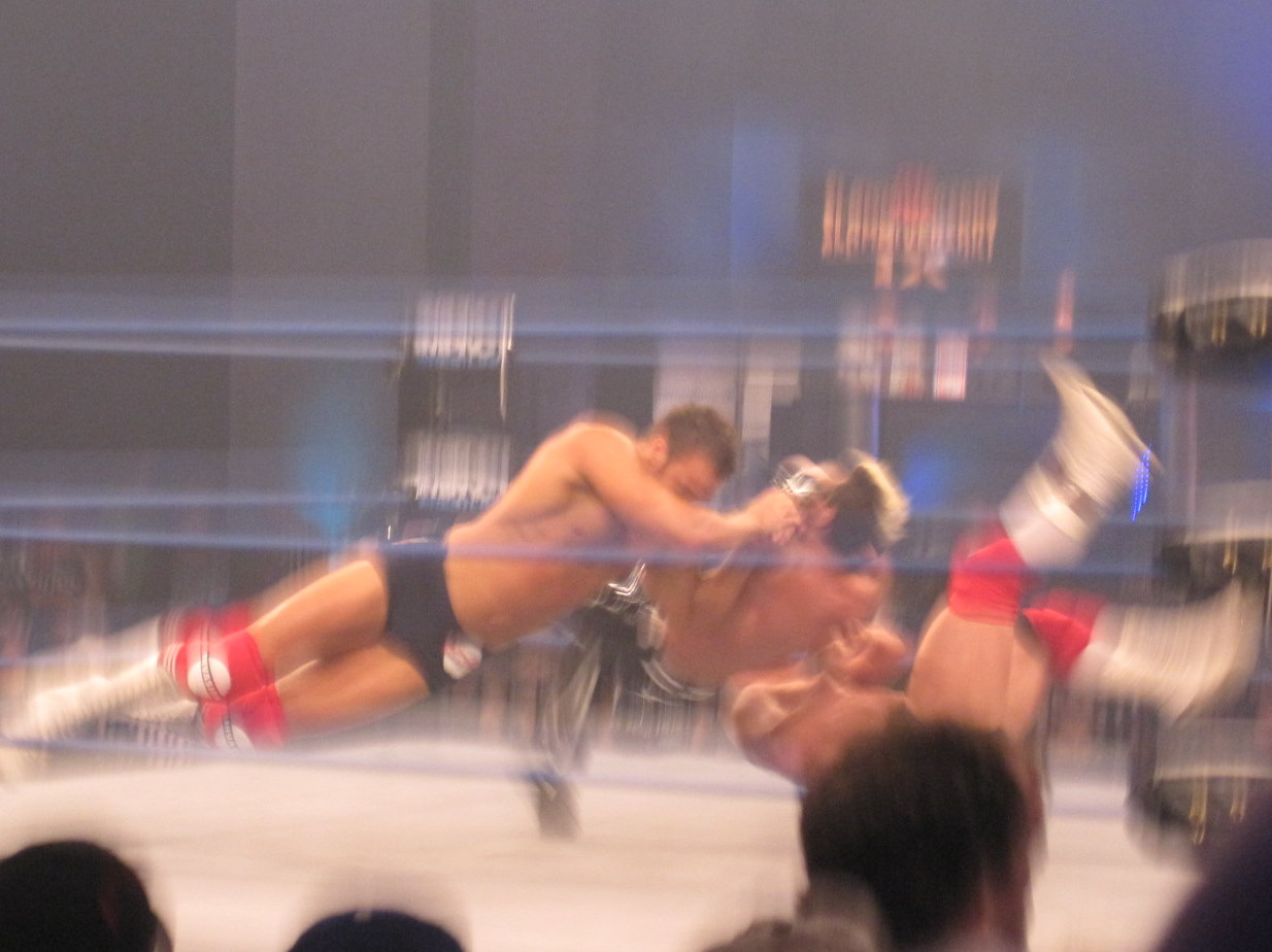 Sunday, June 12, 2011. Universal Orlando